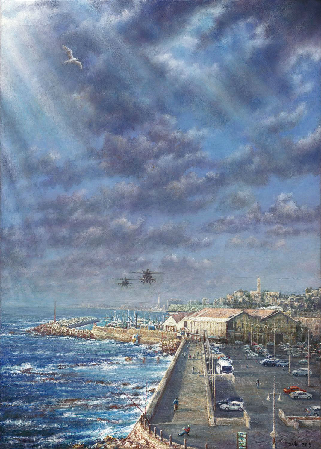 `Long bows over Jaffa 2015. שמן על עץ. 50 על 70 סמ.